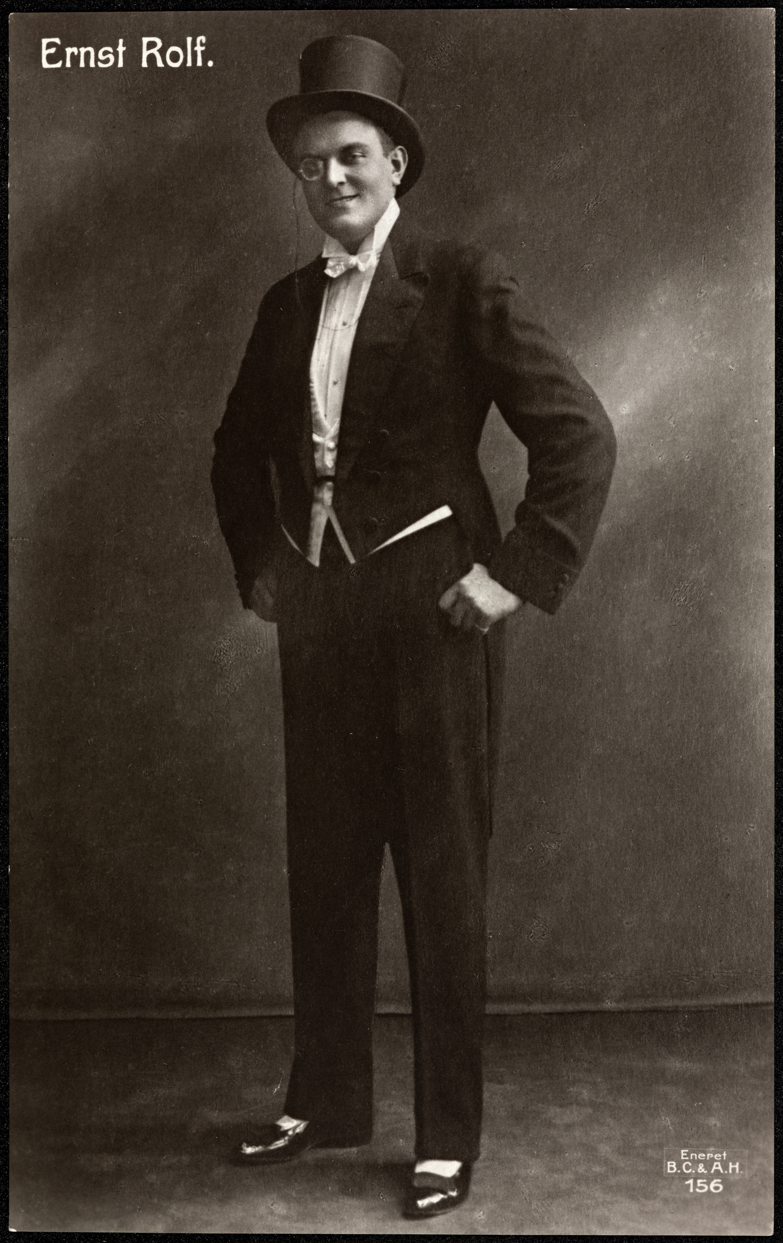 Beskrivelse / Description: Postkort / postcard. Bildet stammer fra Gyldendals historiske portrettarkiv. Ernst Rolf var en svensk sanger, skuespiller og revydirektør.Hans revyer ble som regel også spilt i norskspråklig versjon på Casino i Oslo, og han har hatt minst like stor betydning for utviklingen av norsk revy som svensk. Han var hovedansvarlig for gjennombruddene til så ulike norske kunstnere som Lalla Carlsen og Kirsten Flagstad (kilde: snl.no). Dato / Date: ukjent / unknown Fotograf / Photographer: ukjent / unknown Utgiver / Publisher: B. C. & A. H. Digital kopi av original / Digital copy of original: s/h fotokjemisk postkort Eier / Owner Institution: Nasjonalbiblioteket / National Library of Norway Lenke / Link: Bildesignatur / Image Number: blds_06319